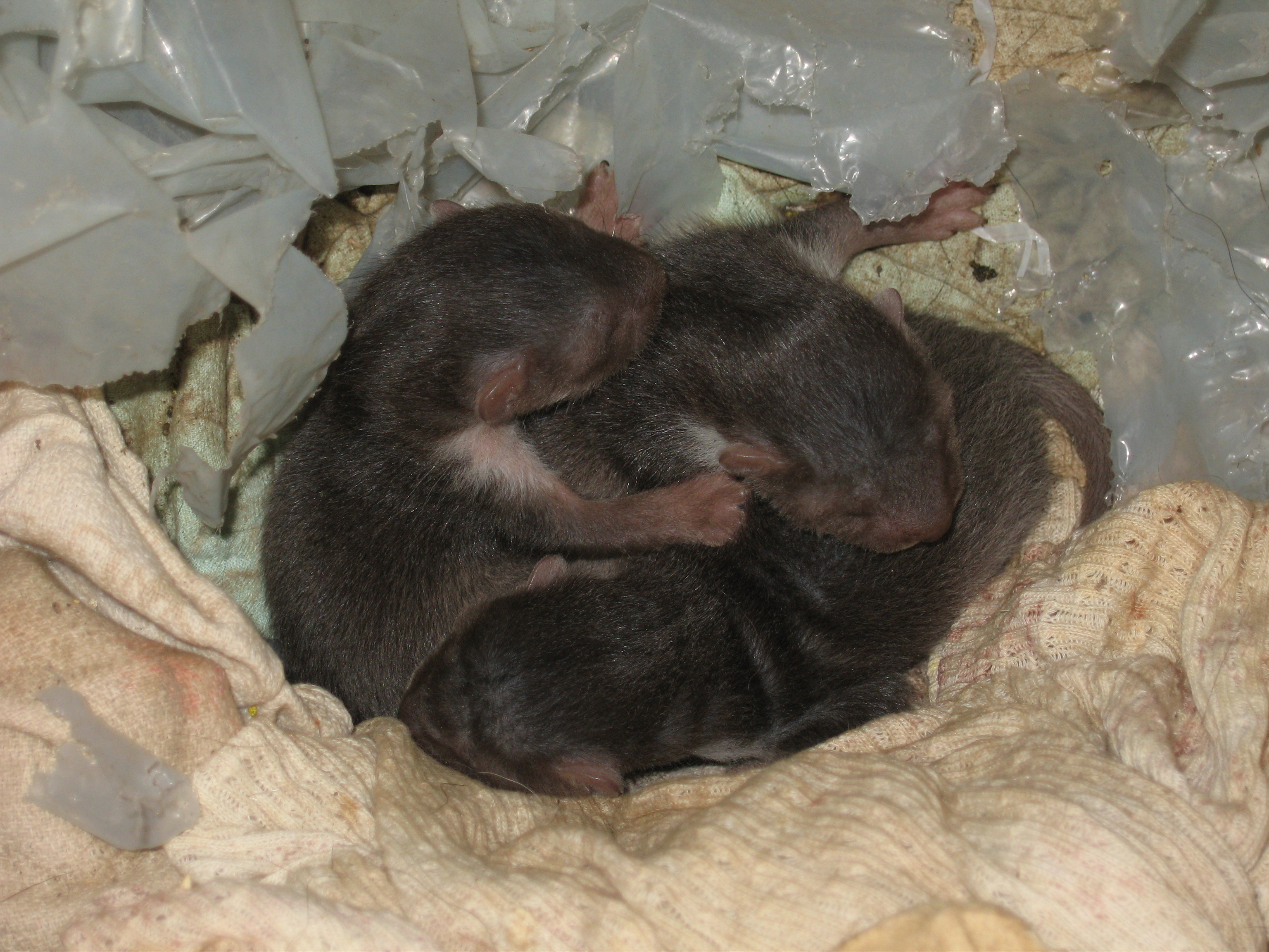 Beech Marten (Martes foina) - nest and litter of three found in а farm outbuilding in the village of Orlintzi, Bulgaria